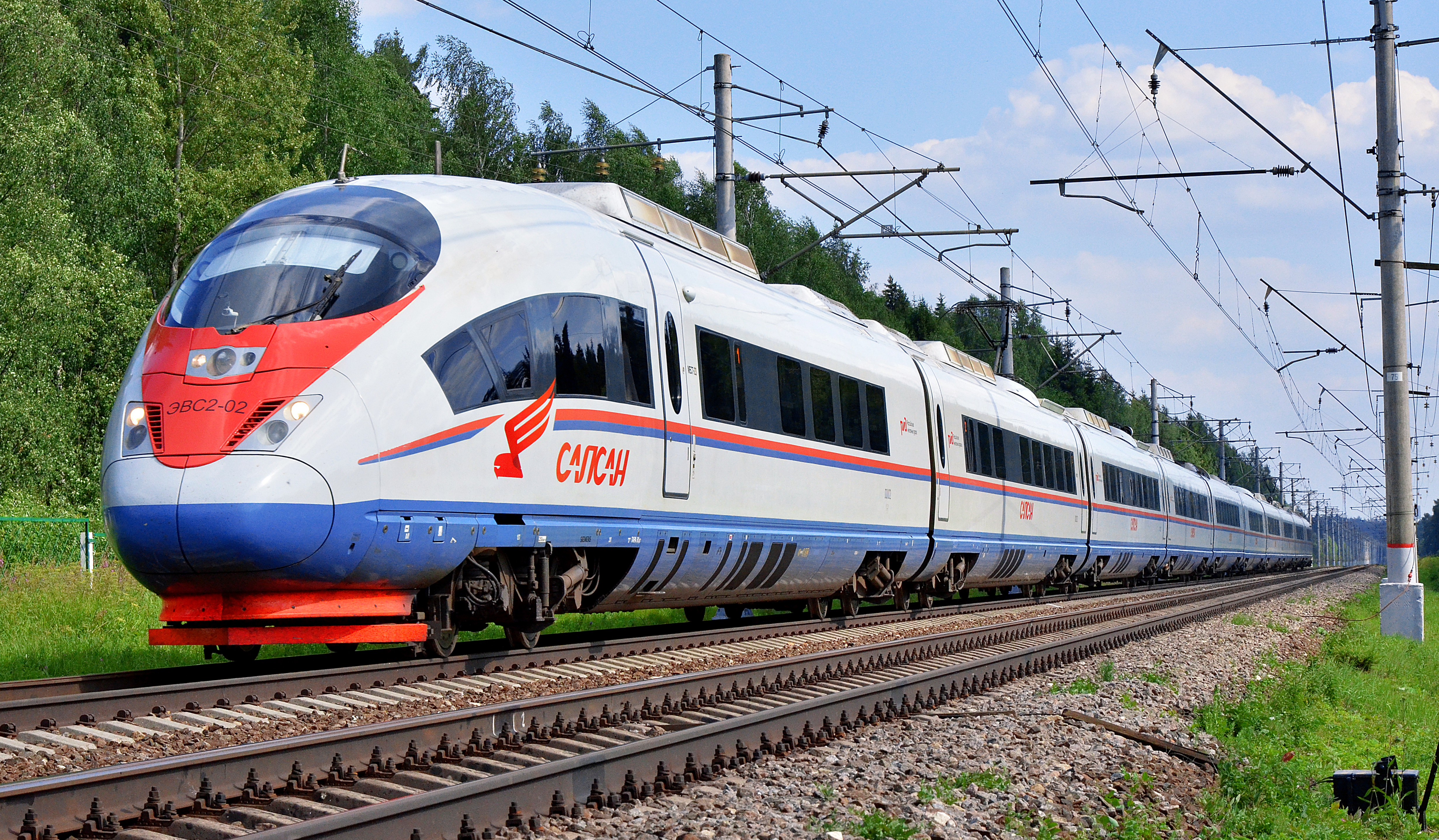 The high-speed train EVS2-02 «Sapsan» on Moscow — Saint Petersburg railway line